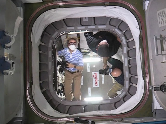 Flight Engineers Karen Nyberg (left), Mike Hopkins (top) and Luca Parmitano work inside the Cygnus cargo craft shortly after the hatches opened at 4:10 a.m. EDT Monday.